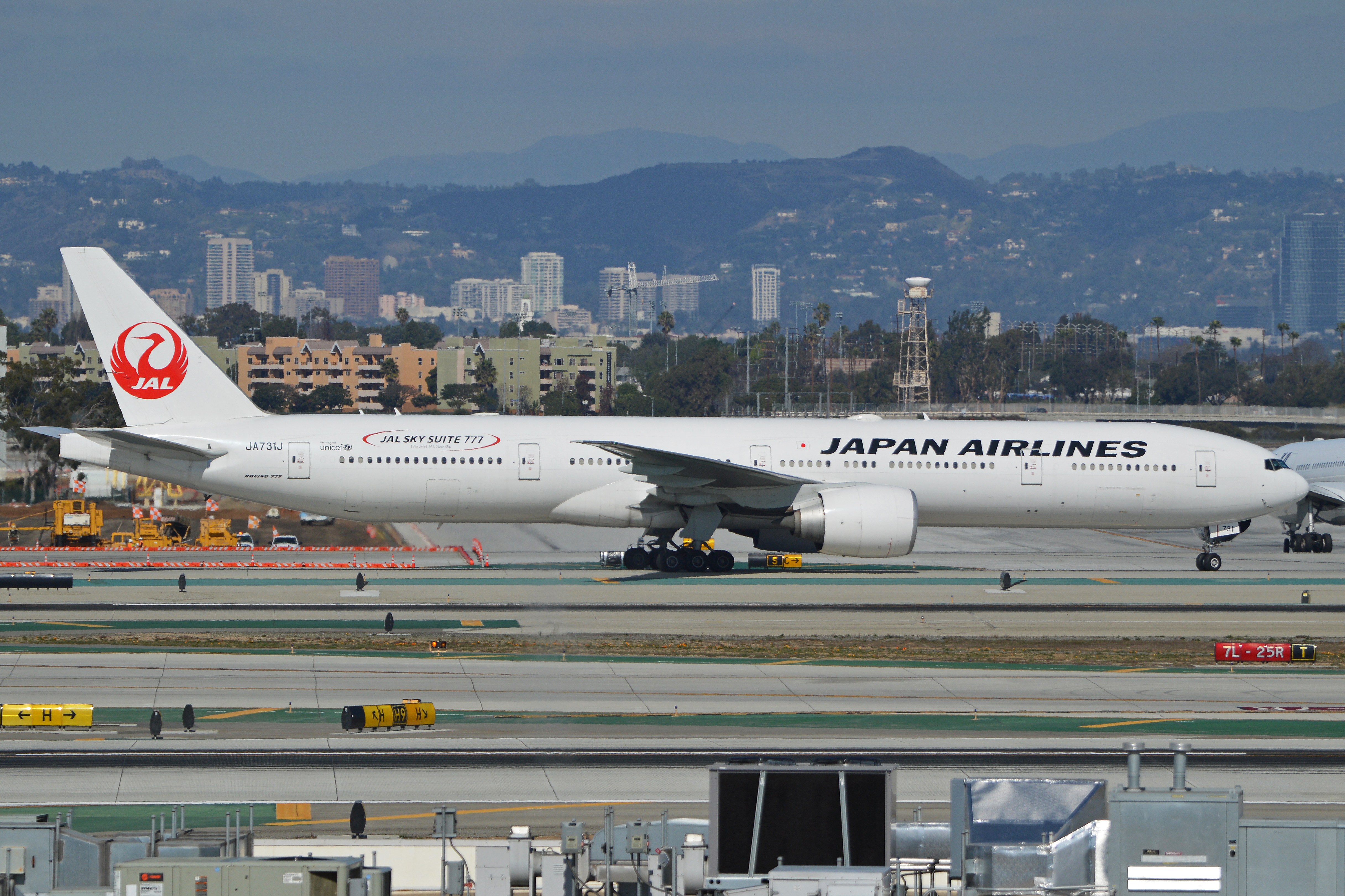 c/n 32431, l/n 429. Built 2003. Seen taxiing in after landing at LAX. Taken from the Imperial Hill spotting location. Los Angeles, California, USA. 08-2-2014